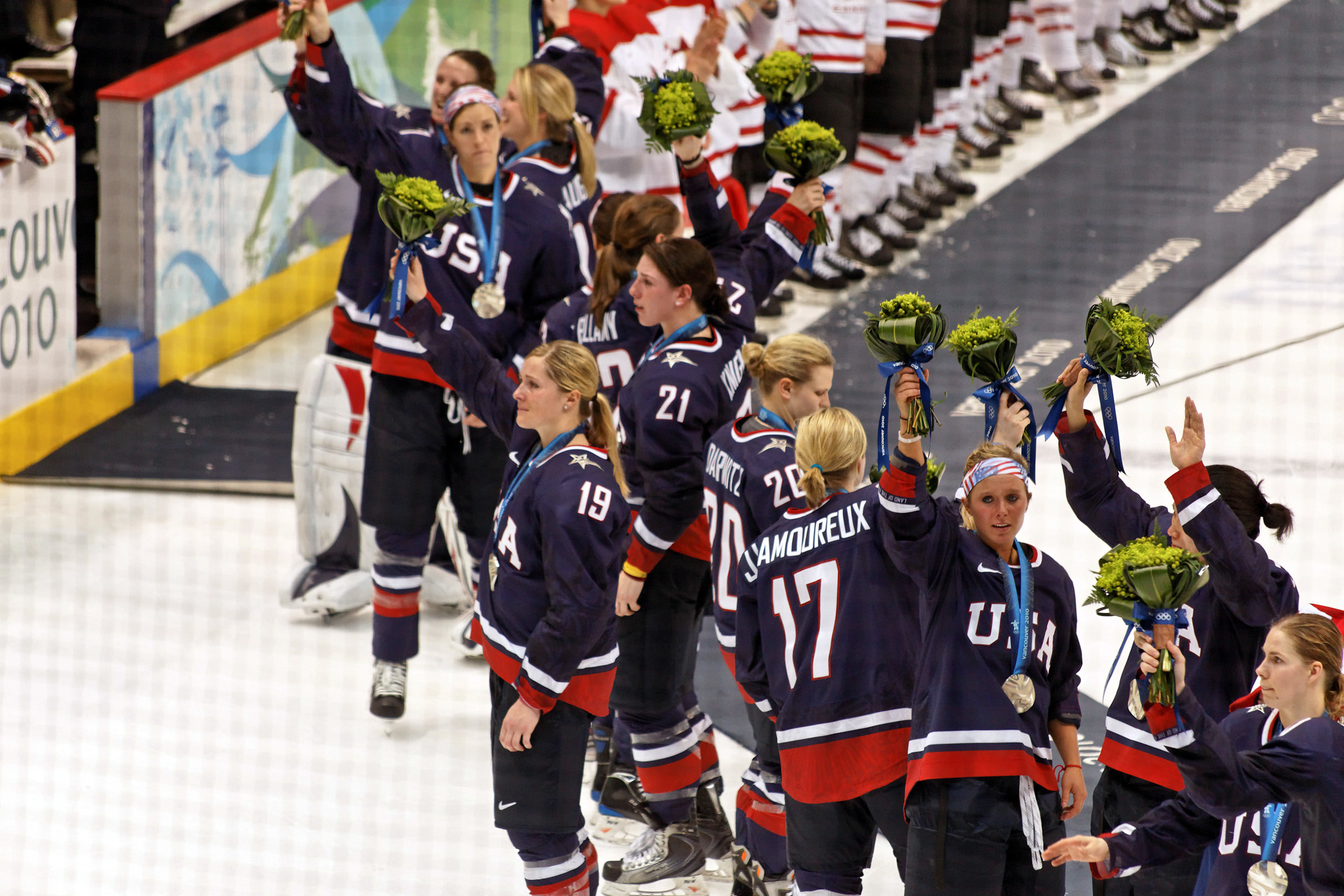 The United States women's national ice hockey team acknowledges the crowd after receiving their silver medals; the USA lost to Canada in the gold medal game at the 2010 Winter Olympics